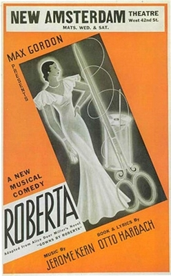 Poster of original Broadway production of Roberta